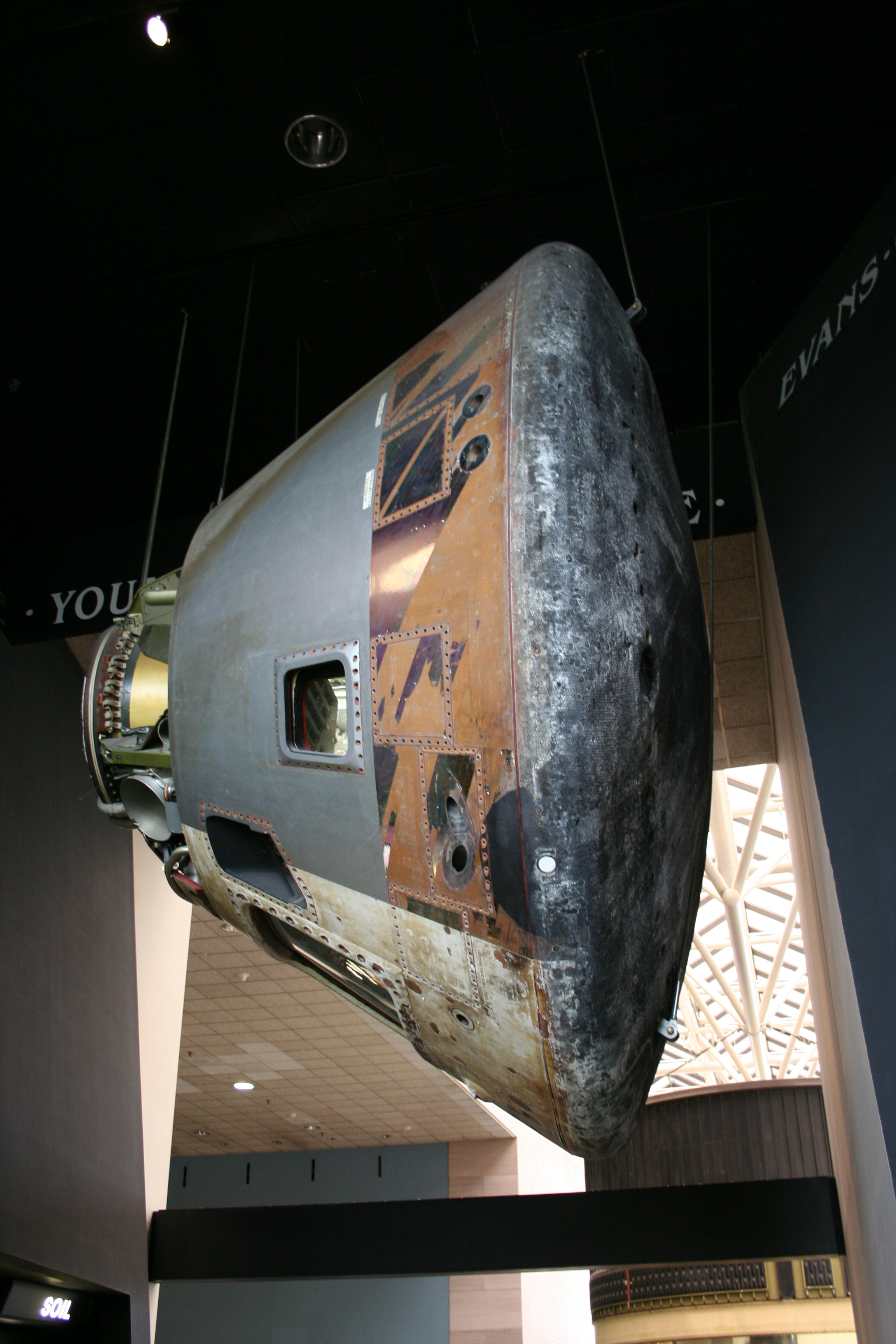 Skylab 4 Command Module. On display at the Smithsonian National Air & Space Museum in Washington, D.C.